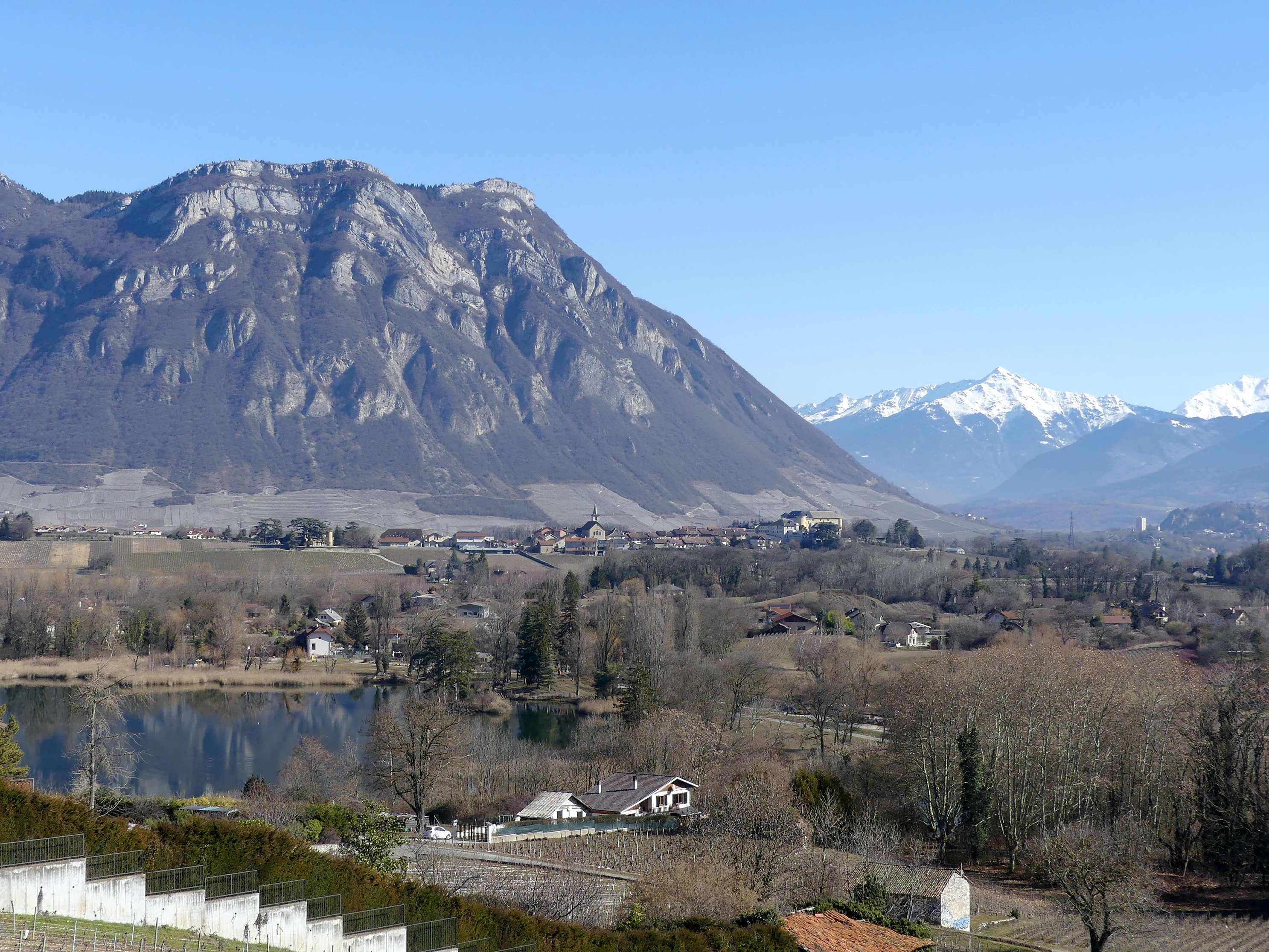 Sight, in winter, of the new territory of Porte-de-Savoie including the hamlet of Saint-André and its lake (foreground) and Les Marches village (background), in Savoie, France.